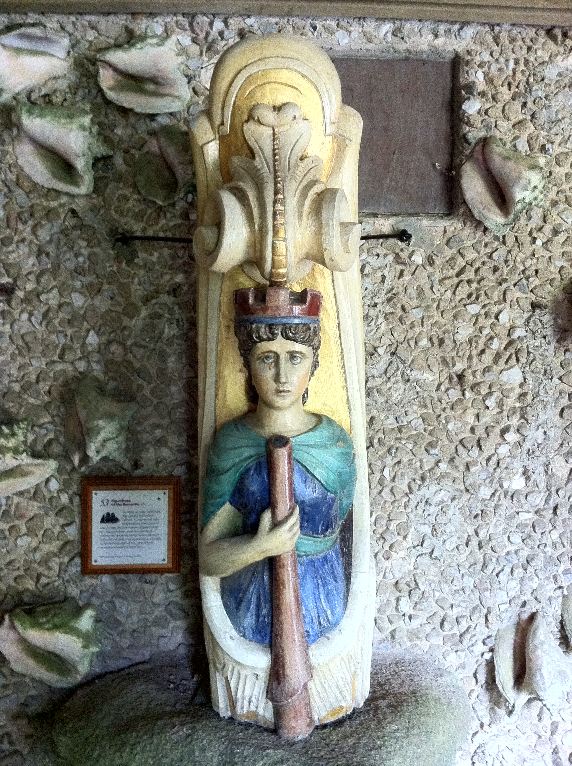 The figure, set within a billet-head, may represent St Bernard of Clairvaux. It comes from an Italian barque that was blown ashore on Annet, Isles of Scilly, in 1888. In the Valhalla Museum in Tresco Abbey Gardens, Isles of Scilly.